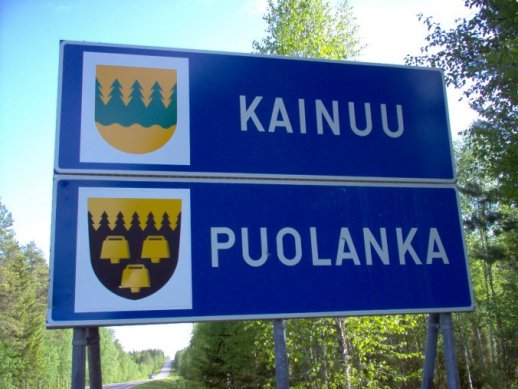 Municipal border sign of Puolanka, Finland and regional border sign of Kainuu